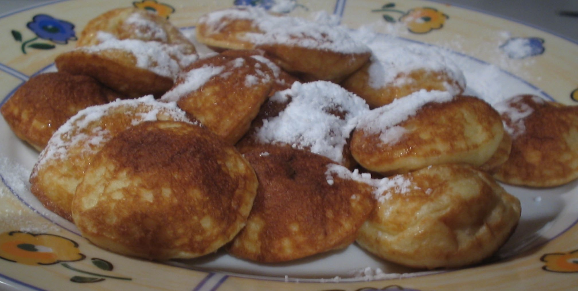 Poffertjes, Dutch cuisine, dessert, very small pancakes